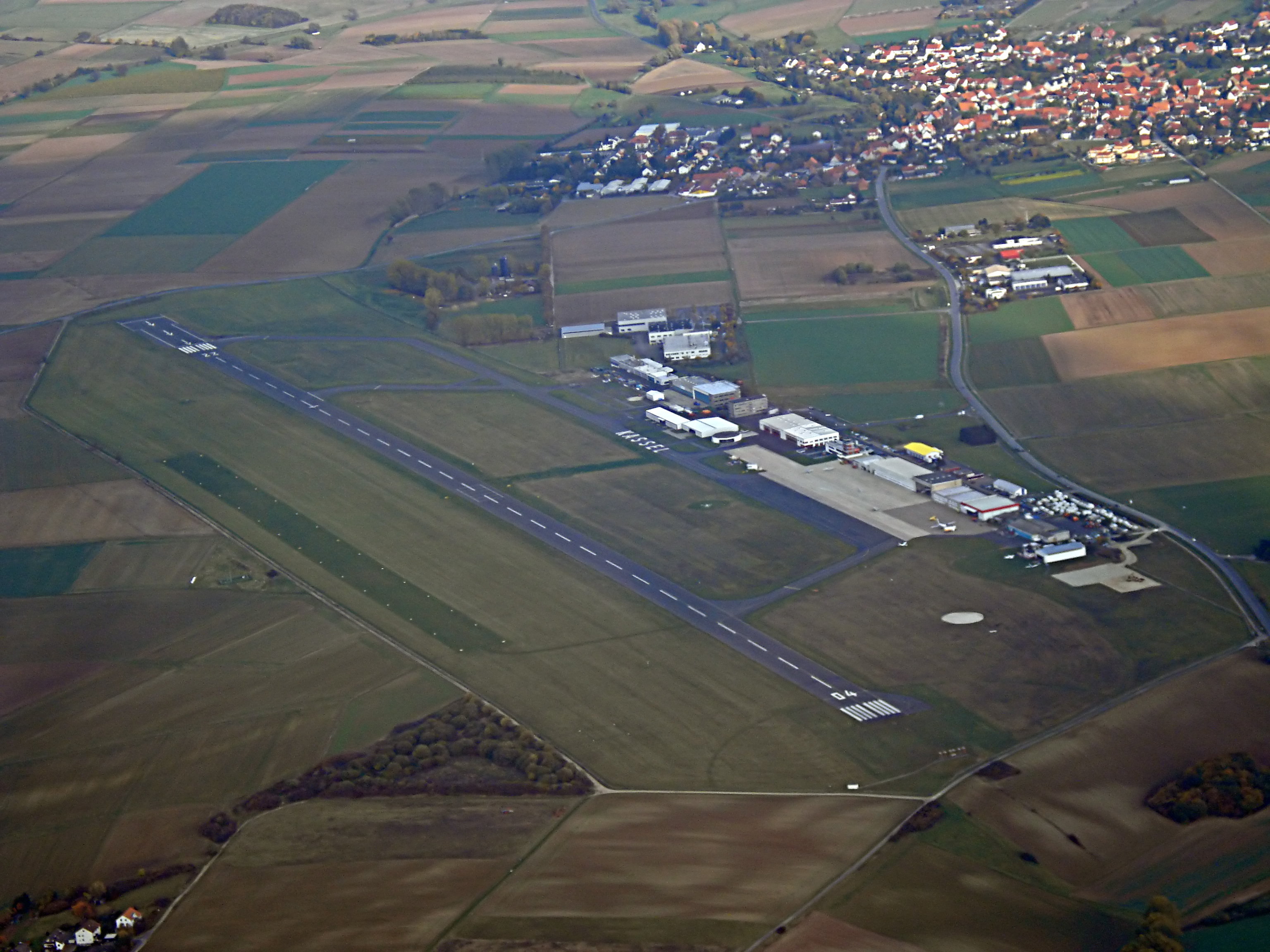 Luftbild Flugplatz Kassel